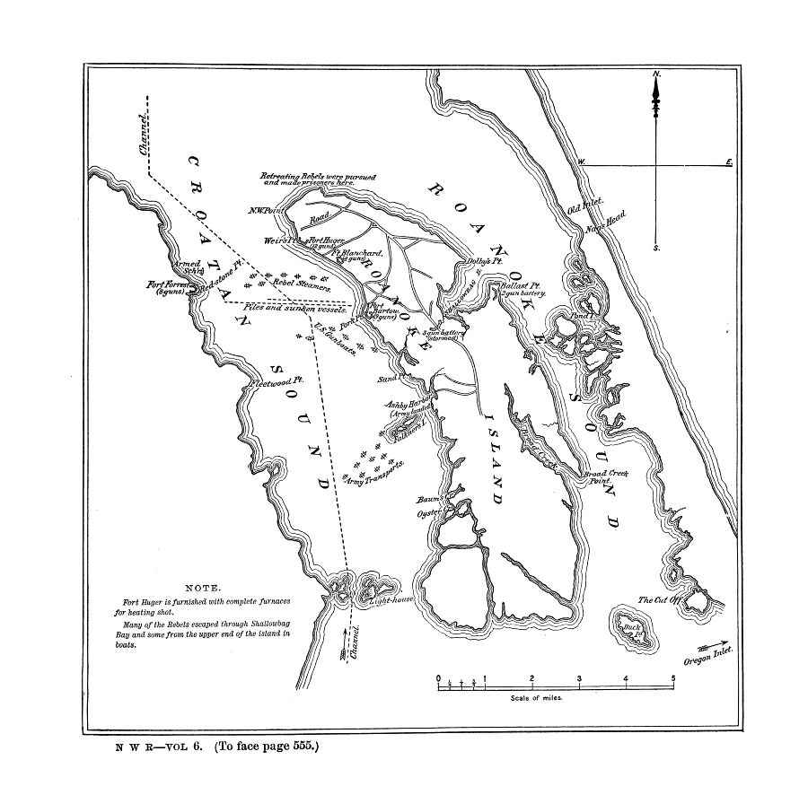 Source: Official records of the Union and Confederate Navies in the War of the Rebellion, Ser. I, vol. 6, p. 554a. Comment: Map of Roanoke Island and Croatan Sound, showing the Confederate forts and the dispositions of the Federal and Confederate fleets, 7 February 1862.